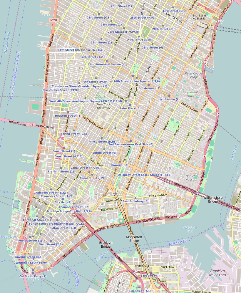 Map of Lower Manhattan This map of Lower Manhattan was created from OpenStreetMap project data, collected by the community. This map may be incomplete, and may contain errors. Don't rely solely on it for navigation.